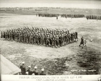 Training at Camp Claiborne, LA. Company D of the 332nd Engineer General Service Regiment, 4 July 1942.